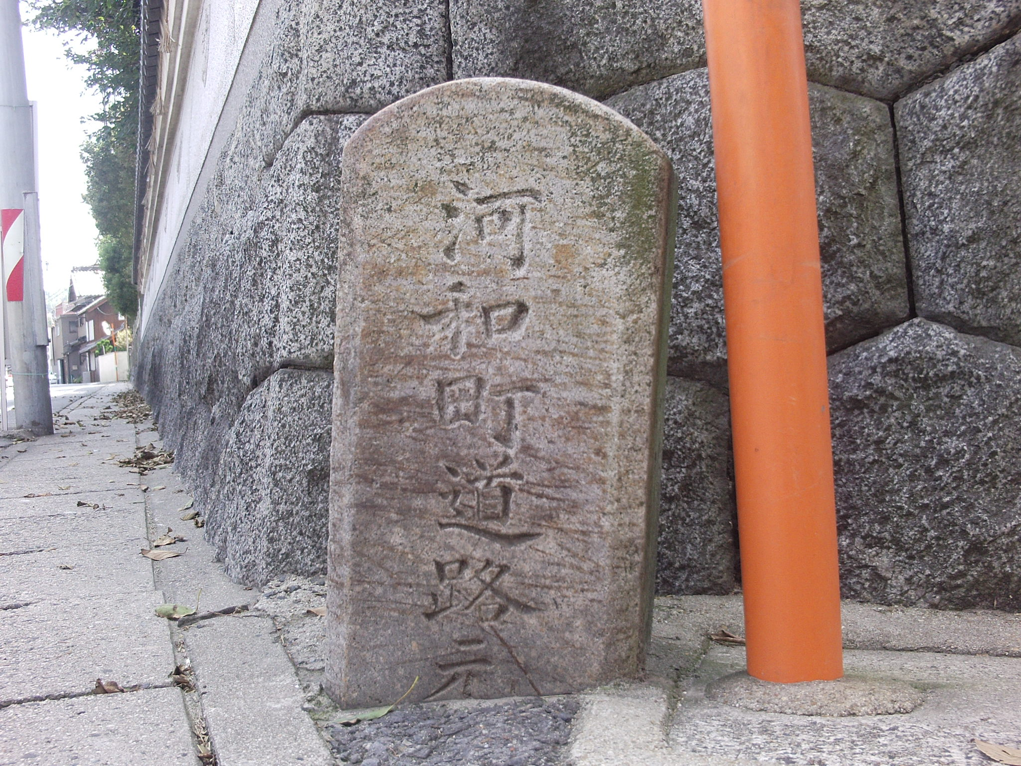 Kilometre zero of Kowa town. (Kowa town, Chita-gun, Aichi.)